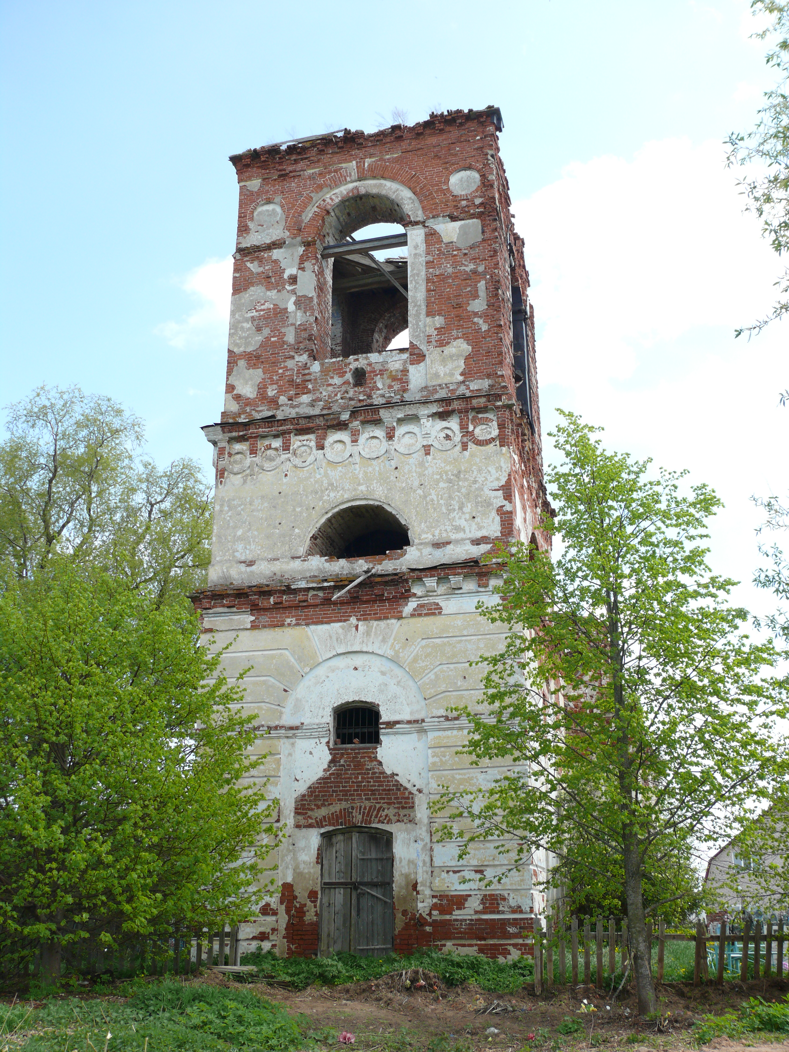 Churche of Transfiguration of Jesus in Peschanoe village. Novgorodsky district, Novgorod oblast, Russia